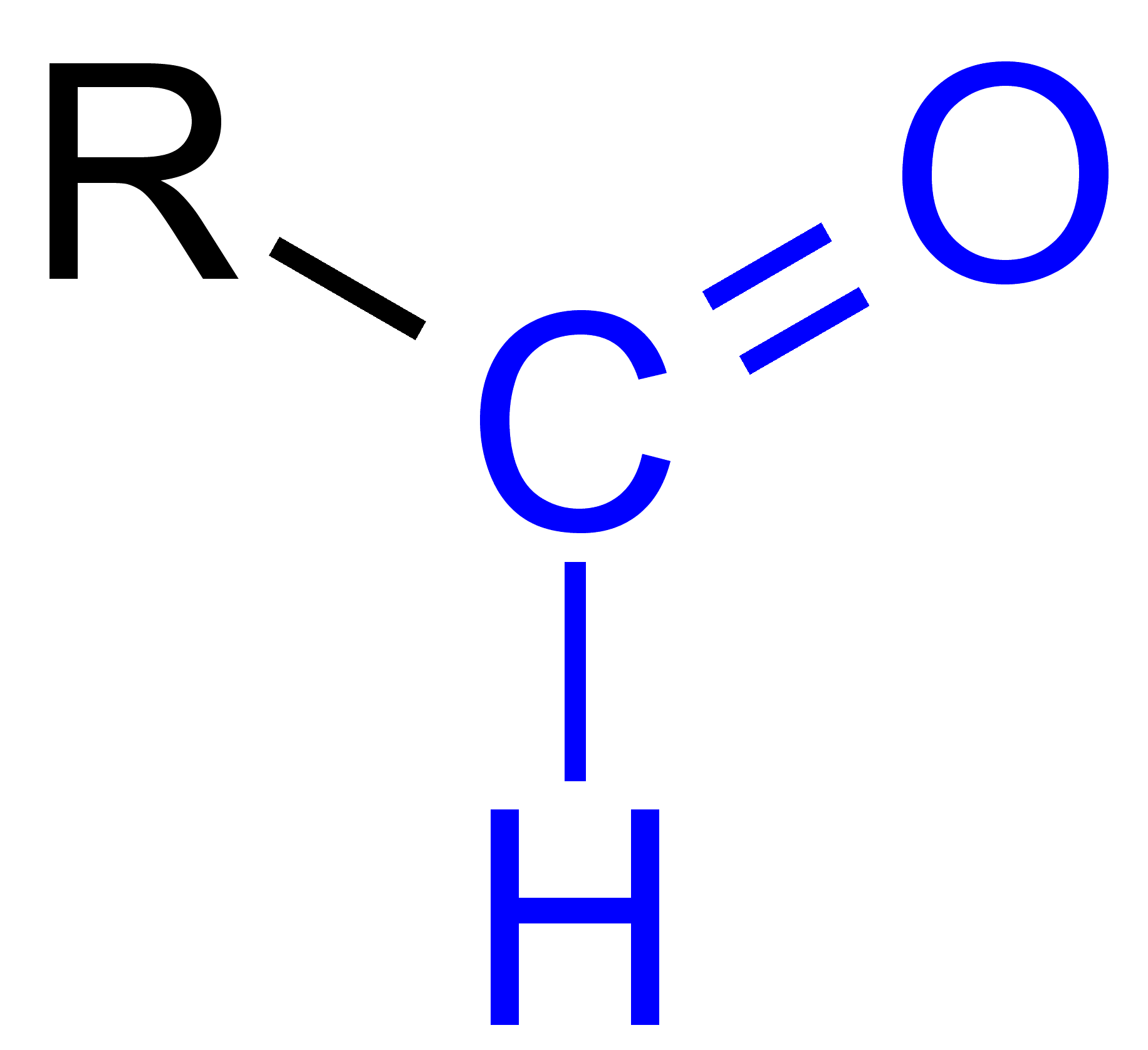 Aldehyde_Structural_Formulae